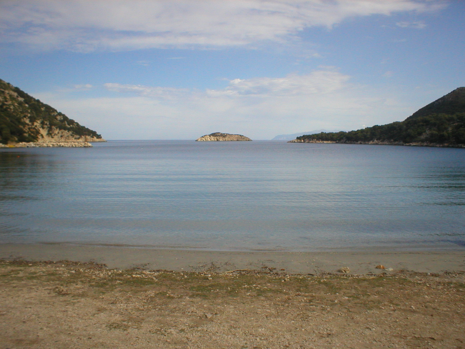 Beach of Atheras, Kefalonia